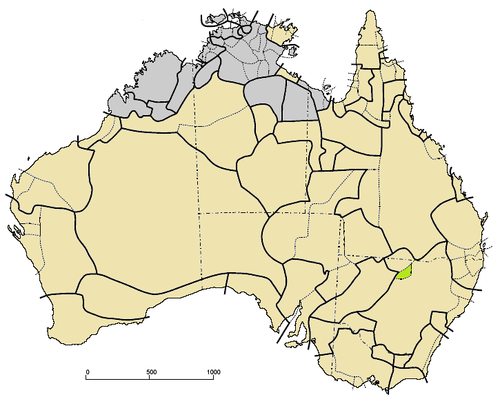 Barranbinja (green) among other Pama–Nyungan languages (tan)